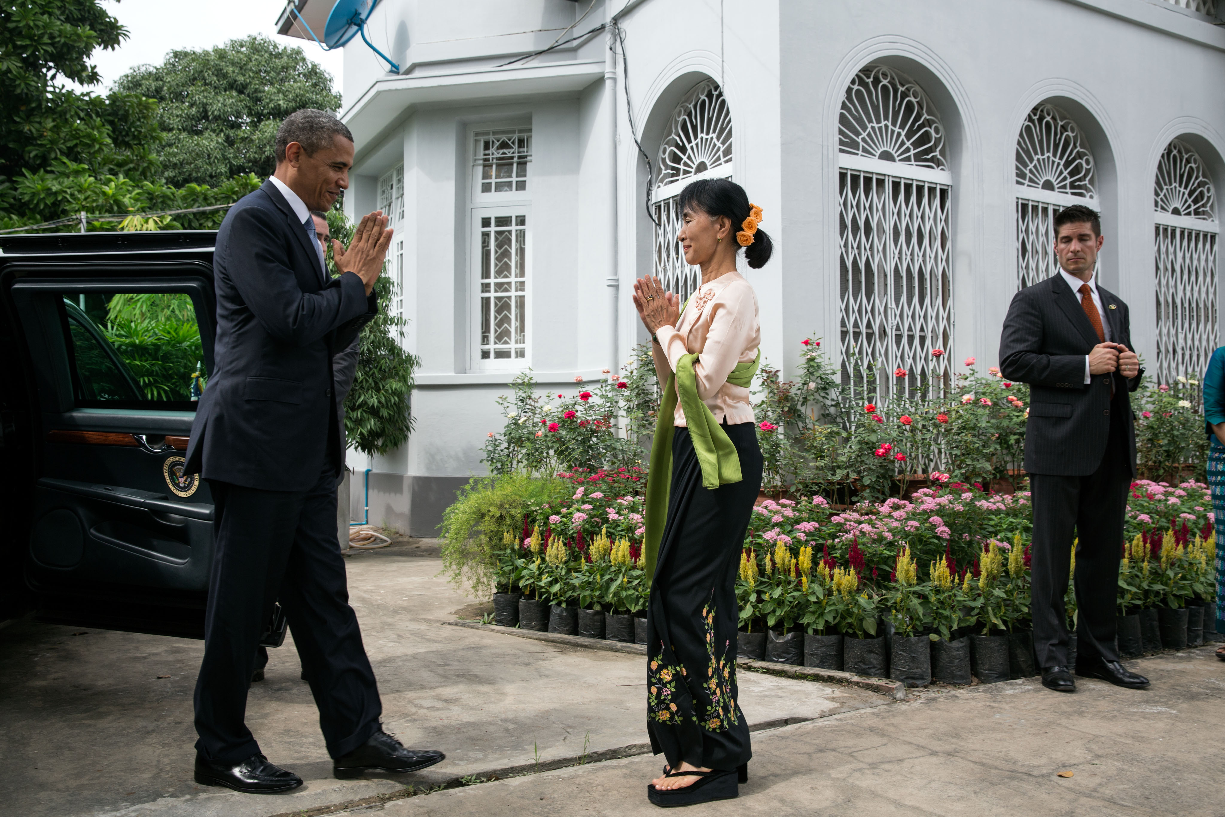 Burmese opposition leader Aung San Suu Kyi welcomes United States President Barack Obama to her home in Rangoon on 19 November 2012.